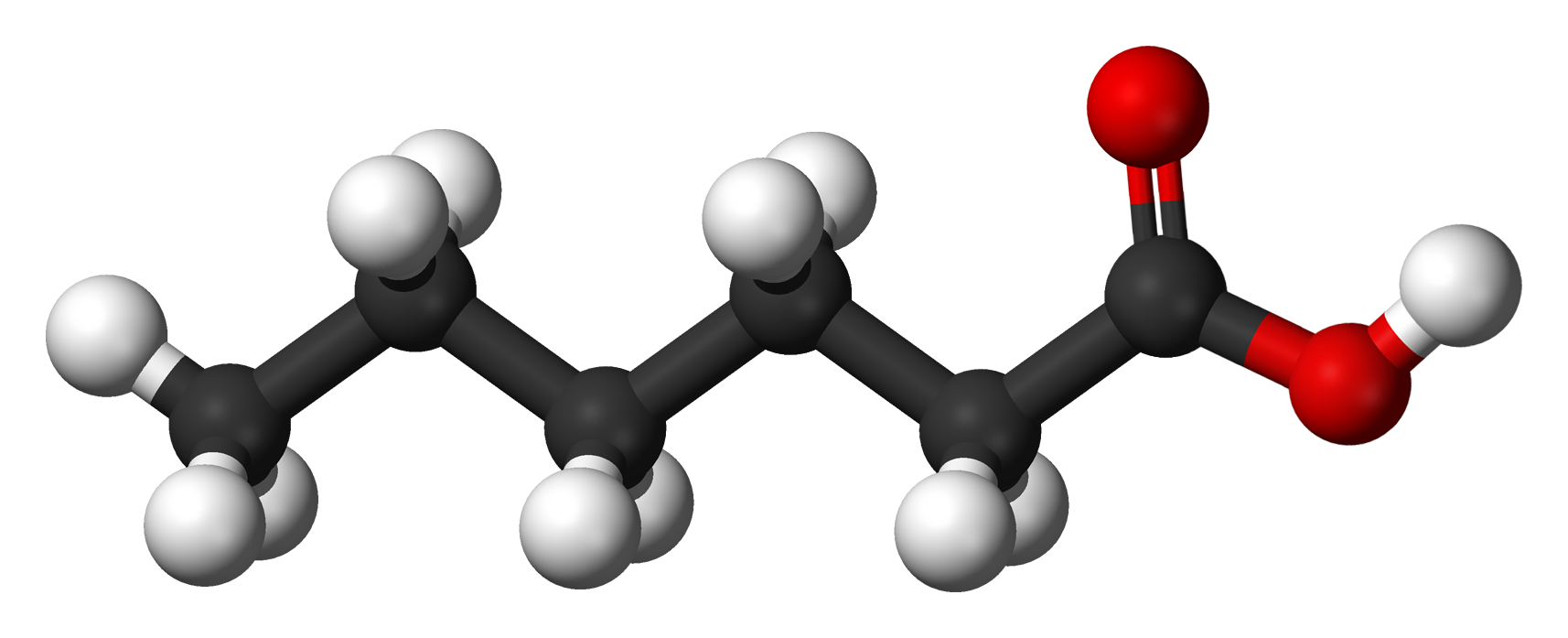 Ball and stick model of the caproic acid molecule (also known as hexanoic acid), a saturated fatty acid found in a number of animal oils and fats, including goat milk fat.